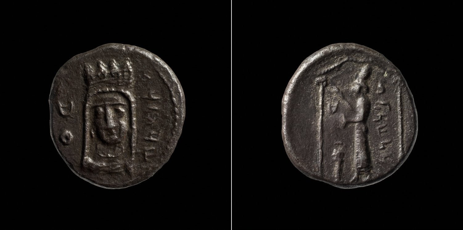 Coin of the king of Manbij